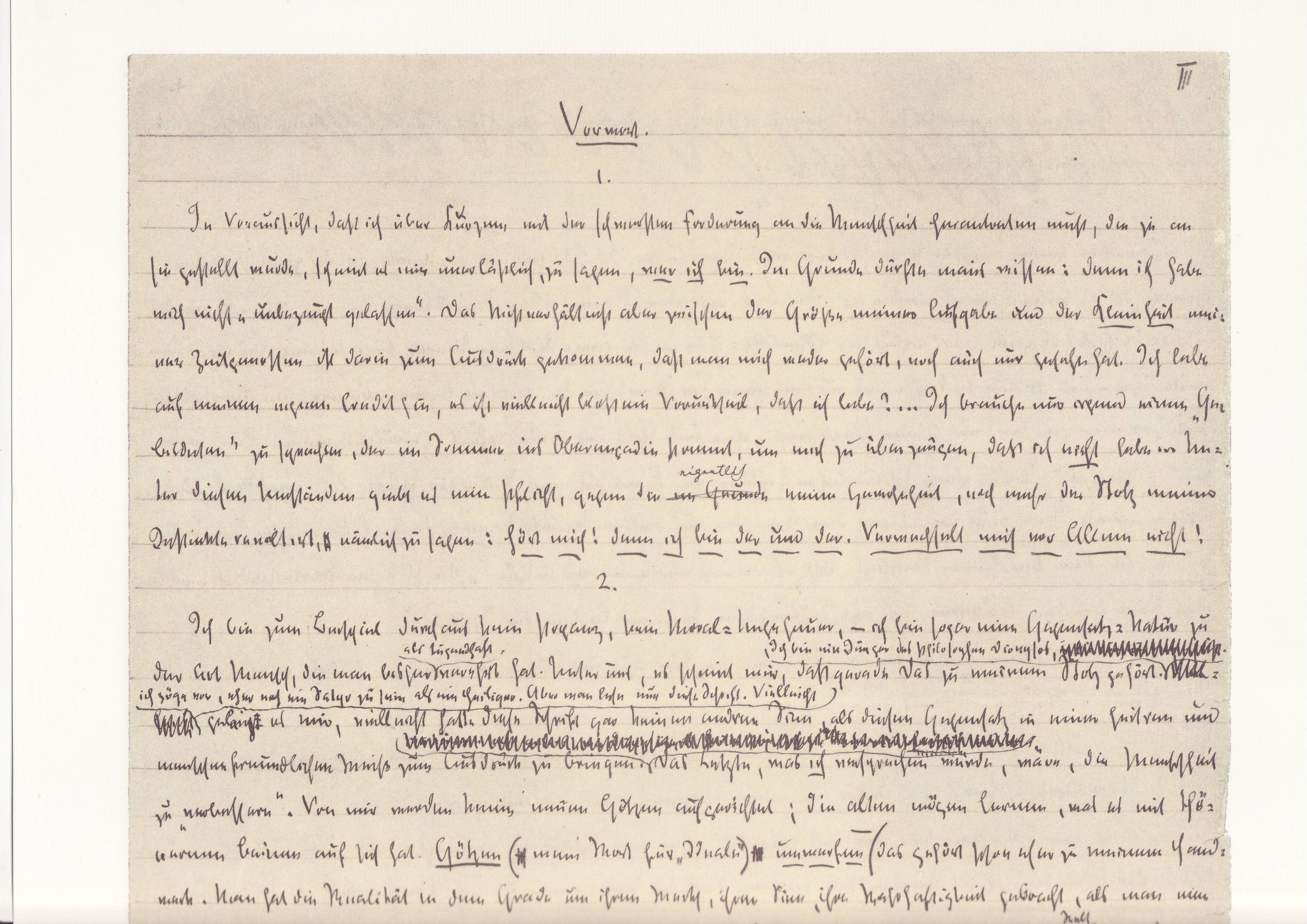 Friedrich Nietzsche's Ecce homo, first page of manuscript. (Detail.)